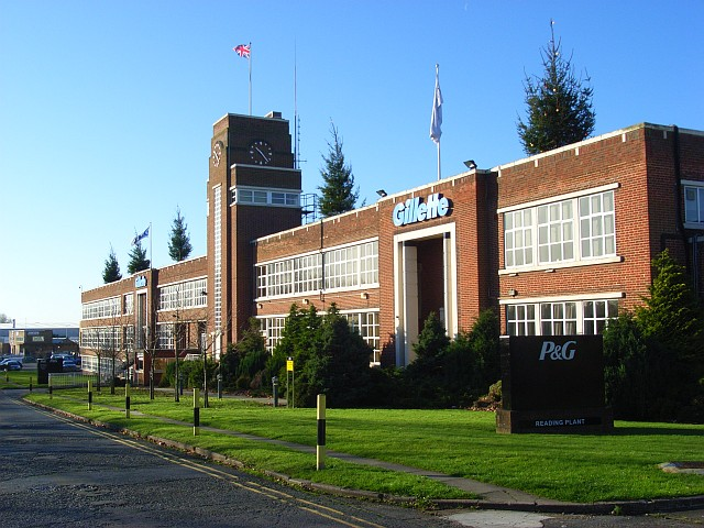 The Gillette factory, Reading Premises across the Basingstoke Road from Whitley's housing estates. They also display the initials of the parent company, Proctor and Gamble.